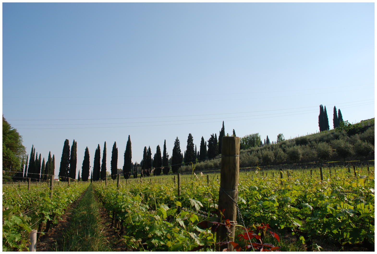 A Vineyard in the Italian wine region of Valpolicella in the Veneto.